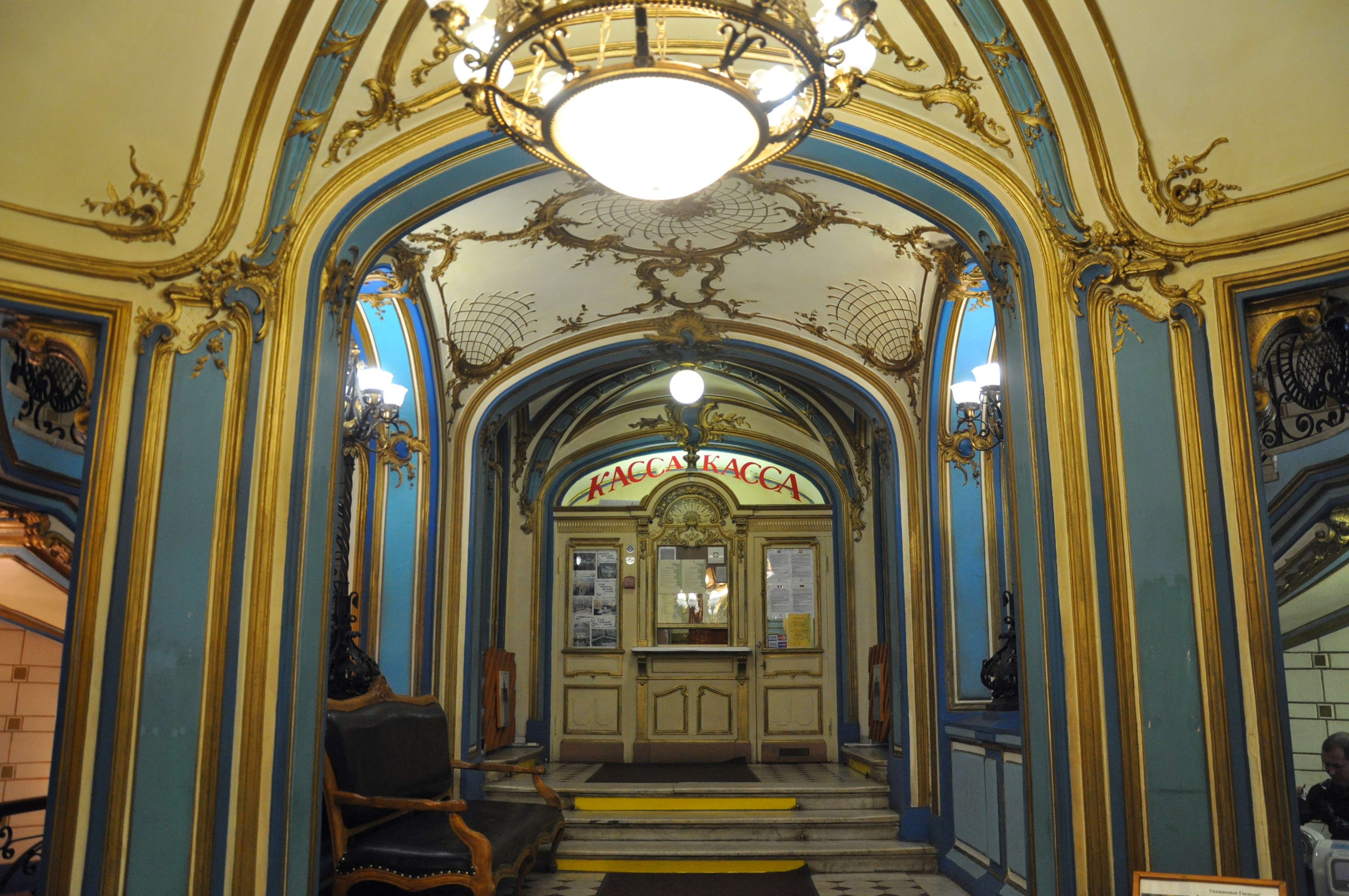 Sandunovskiye Baths